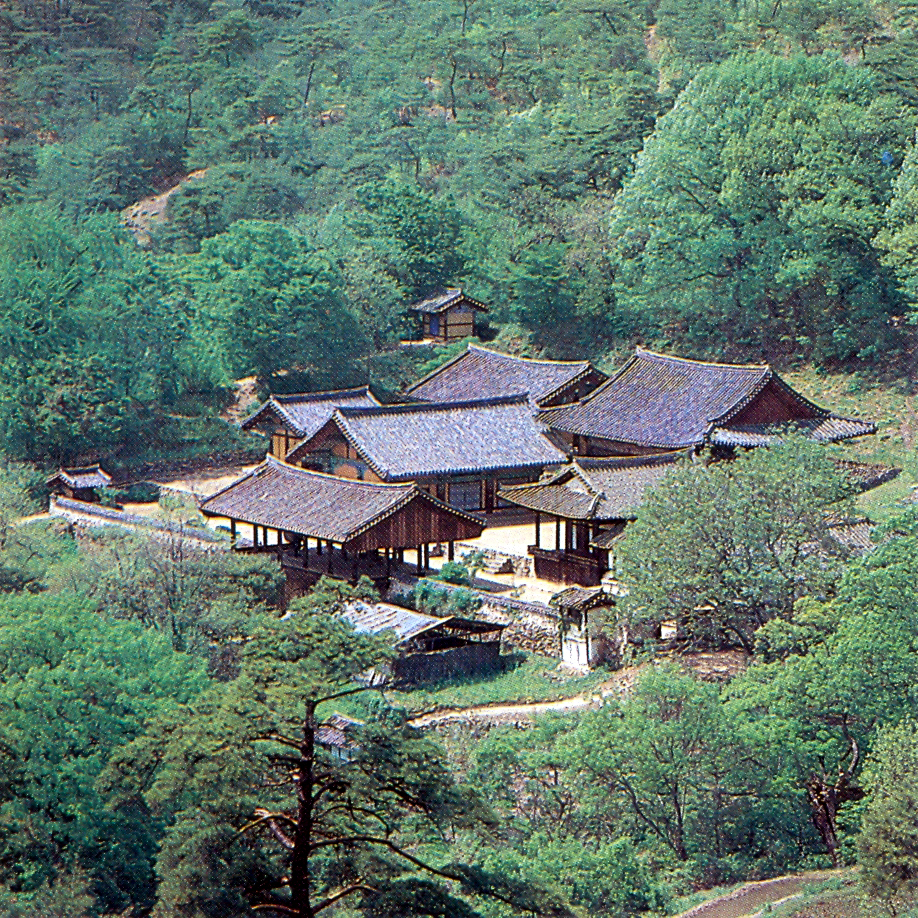 Bongjeongsa